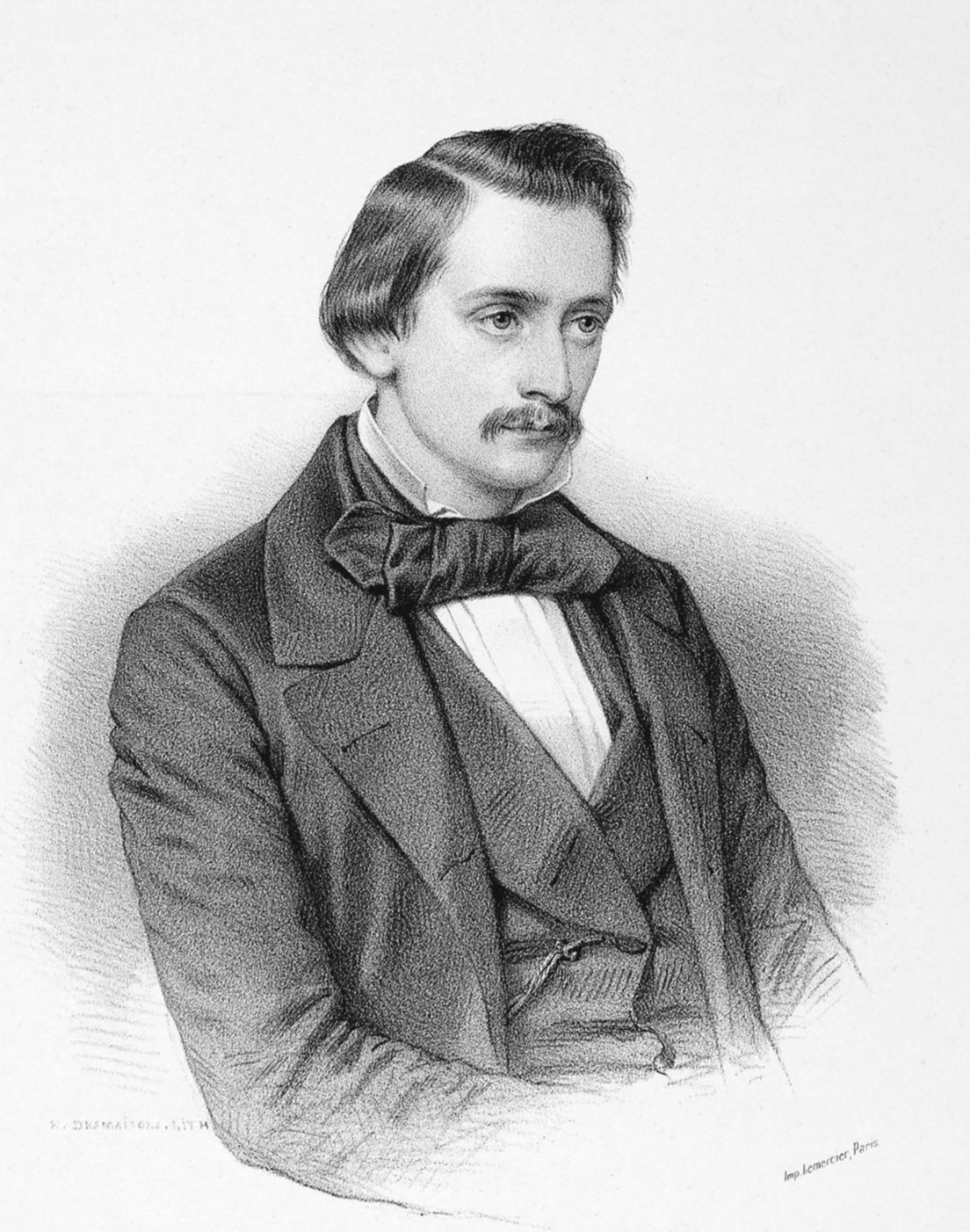 German-born pianist and composer Jacques [or Jacob] Blumenthal (1829-1908).